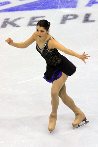 Tuğba Karademir at the 2009 Skate America.